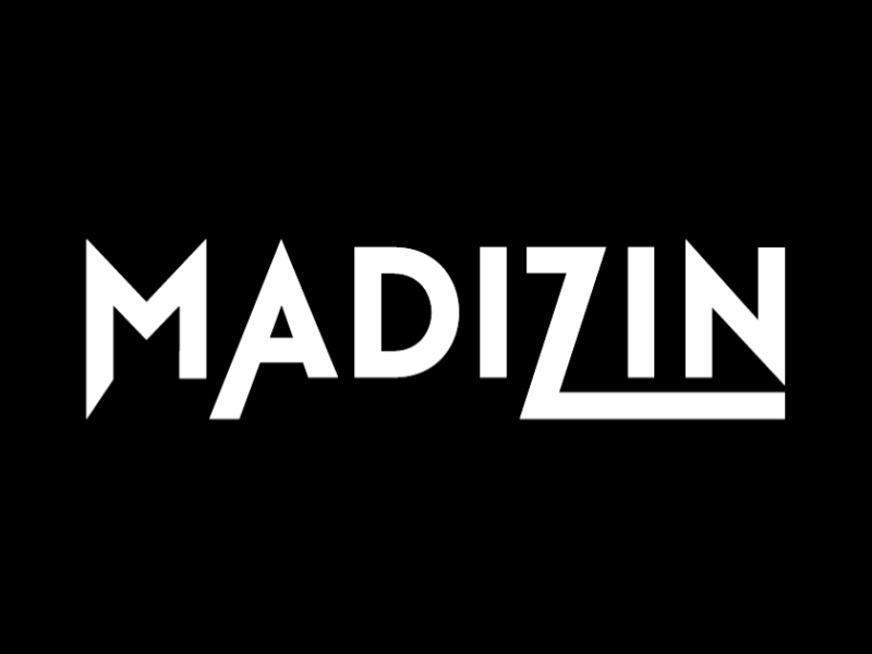 Logo of German producer team Madizin.